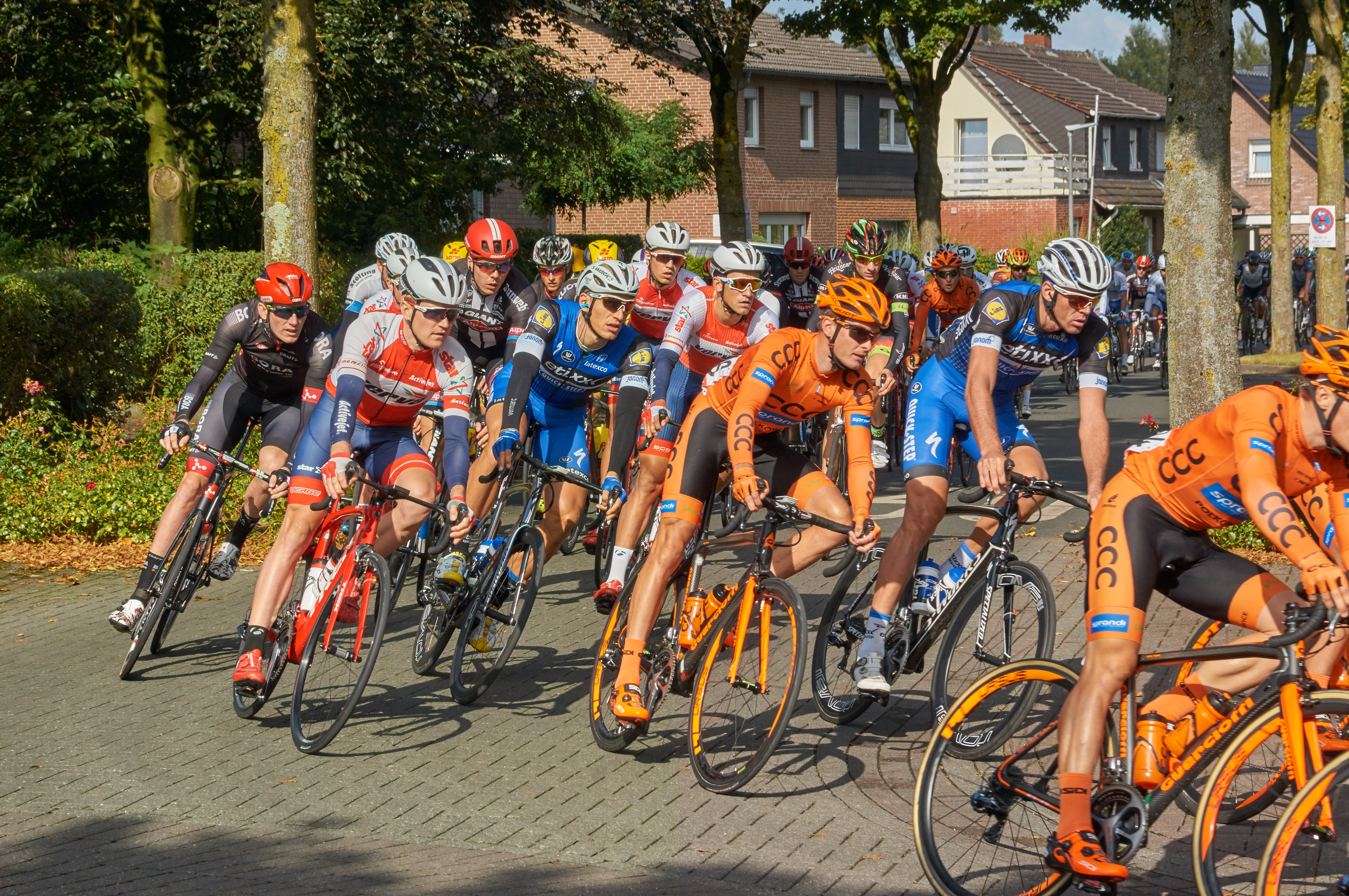 Cycling competition Sparkassen Münsterland Giro 2016 in Coesfeld, North Rhine-Westphalia, Germany.